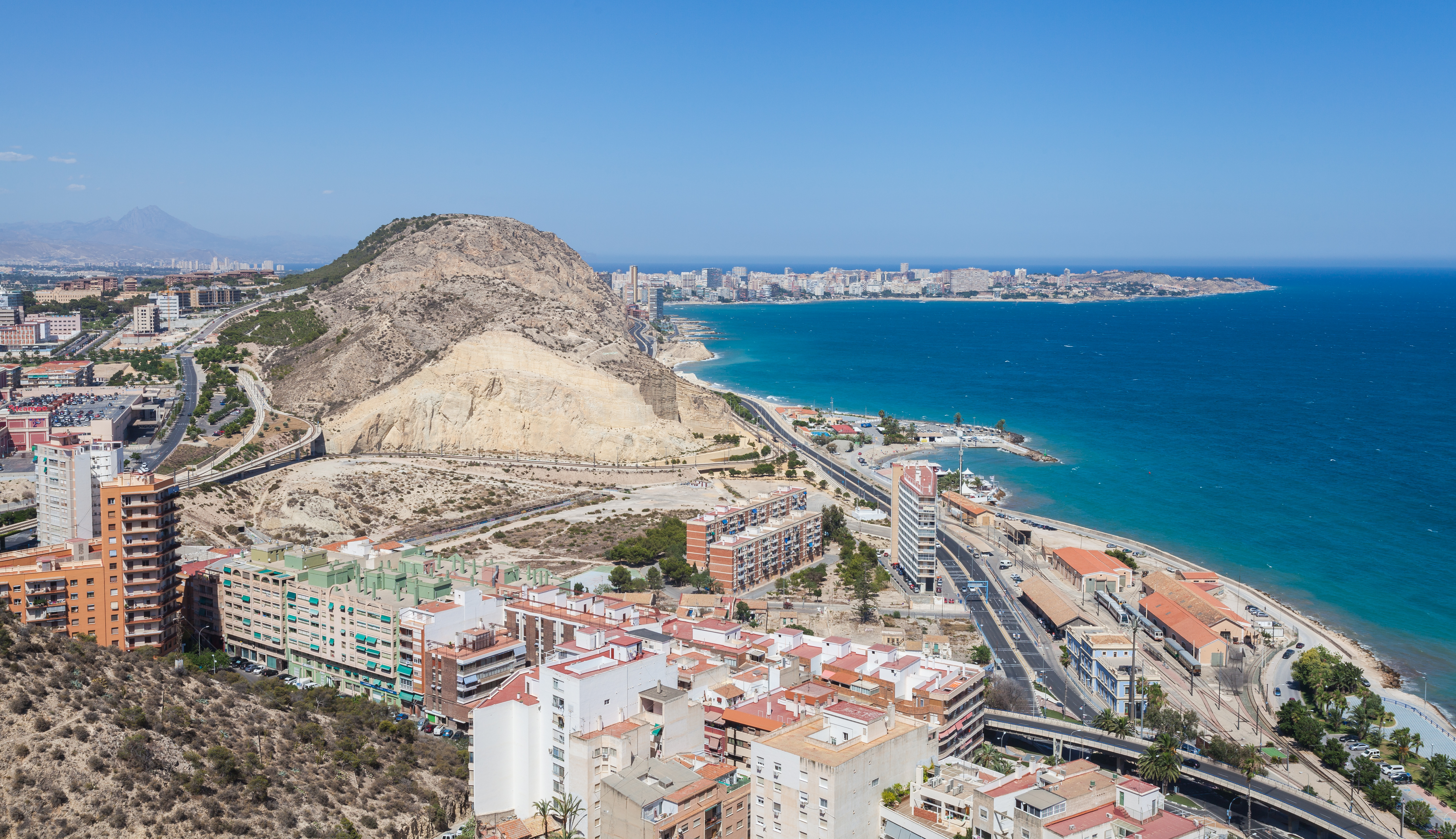 View of Alicante, Spain